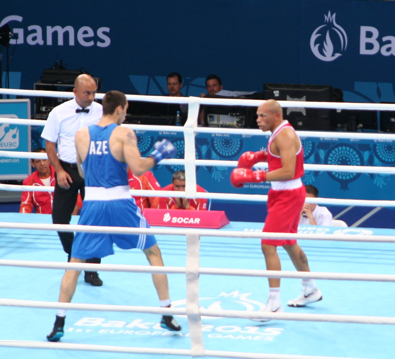 Teymur Mammadov vs Valentino Manfredonia at the 2015 European Games (Final)